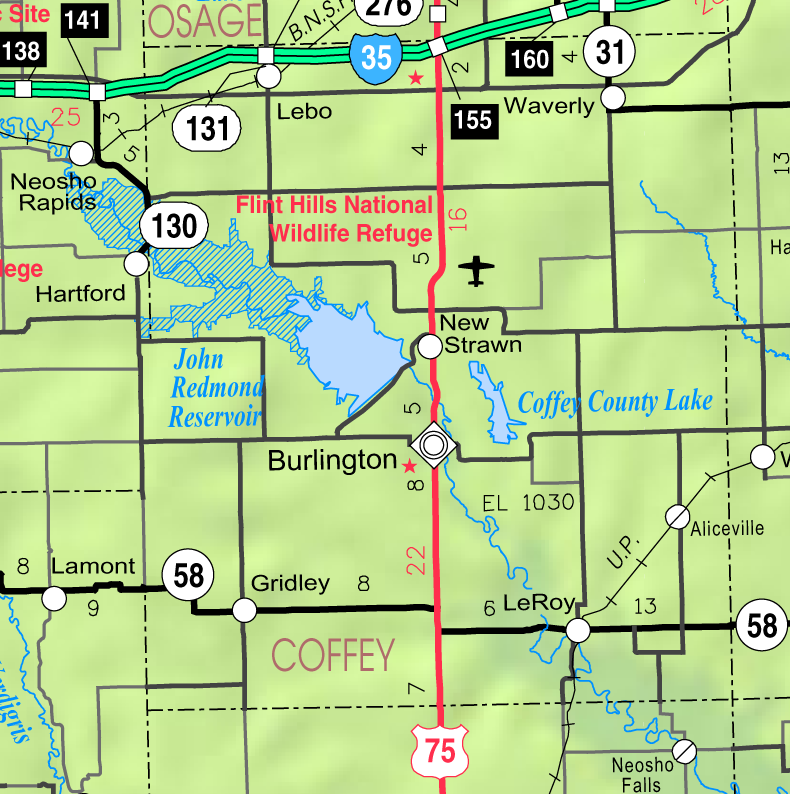 This map of Coffey County, Kansas, USA, is copied at a resolution of 300 pixels/inch from the original PDF file.